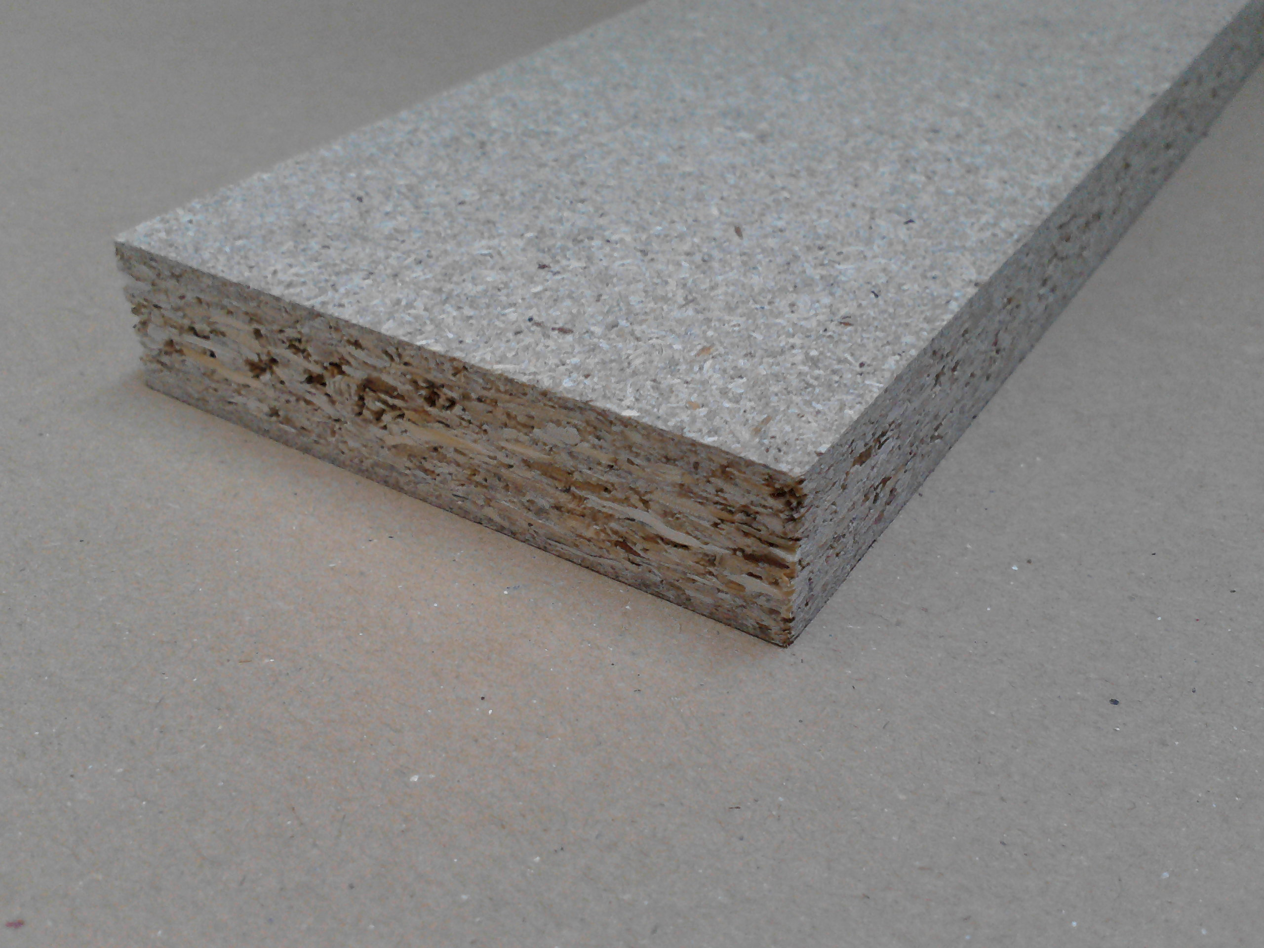 Particle board